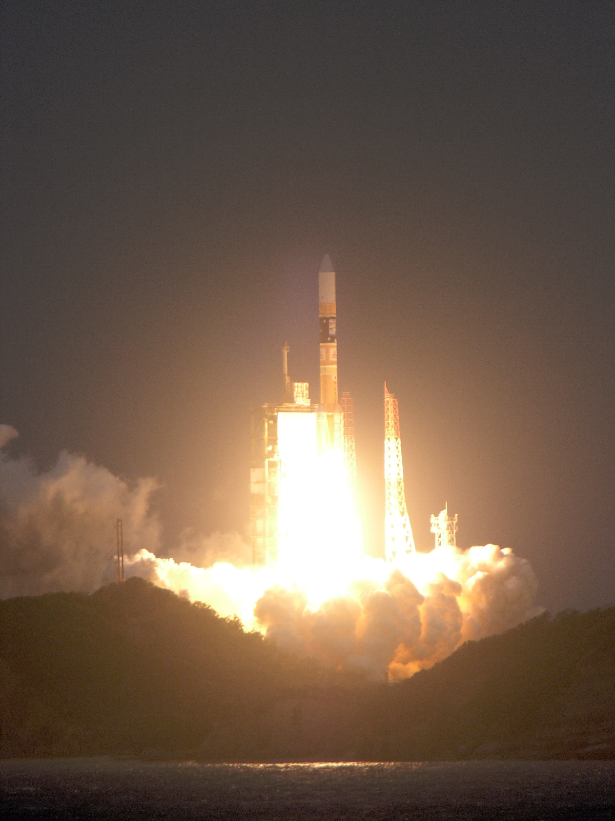 H-IIA Launch Vehicle Flight 14, launching "KIZUNA" (WINDS:Wideband InterNetworking engineering test and Demonstration Satellite)